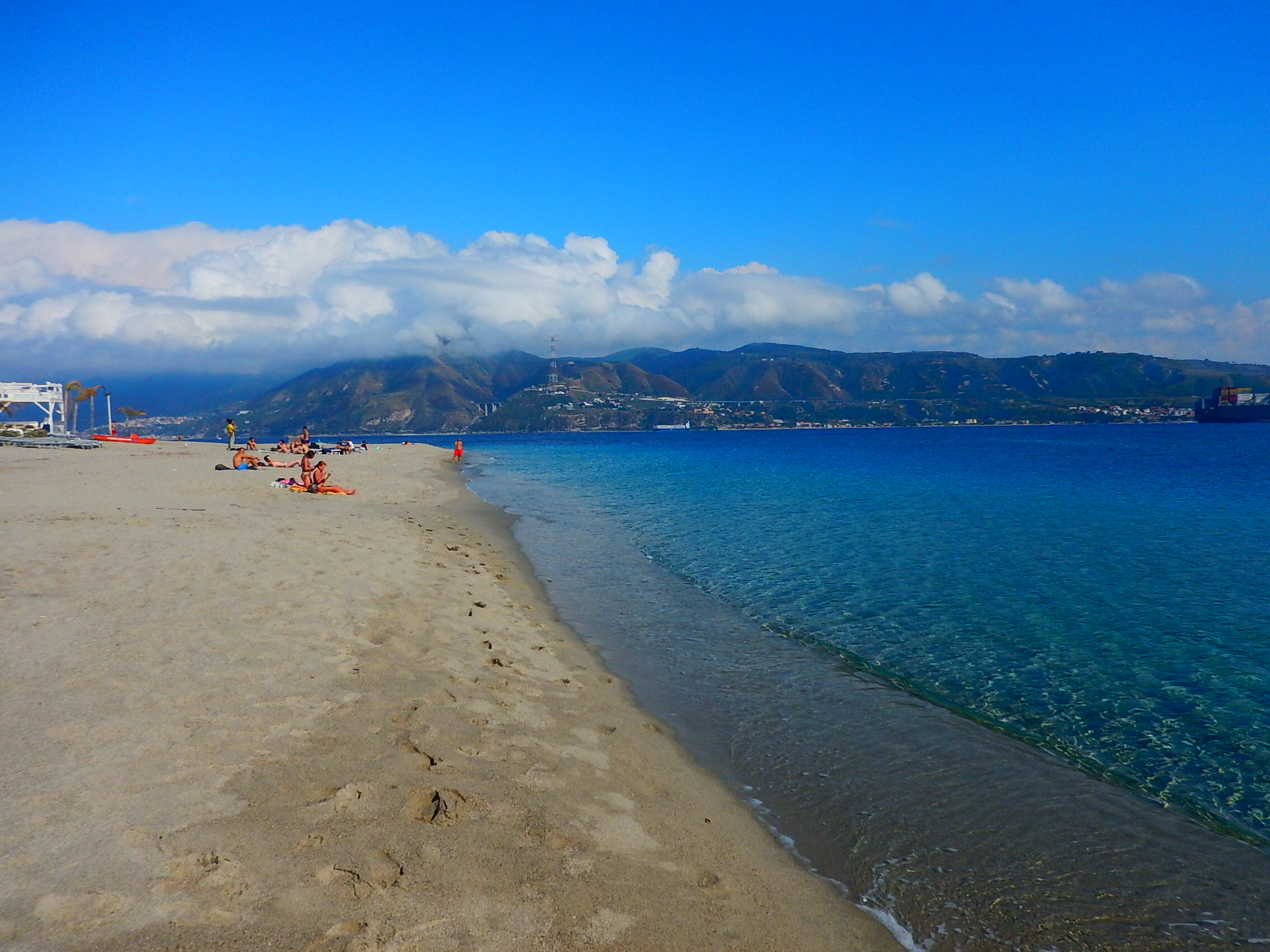 the closest points of the Strait of Messina,Shylla and Charybdis in mitology,seen from Torre Faro village in Messina